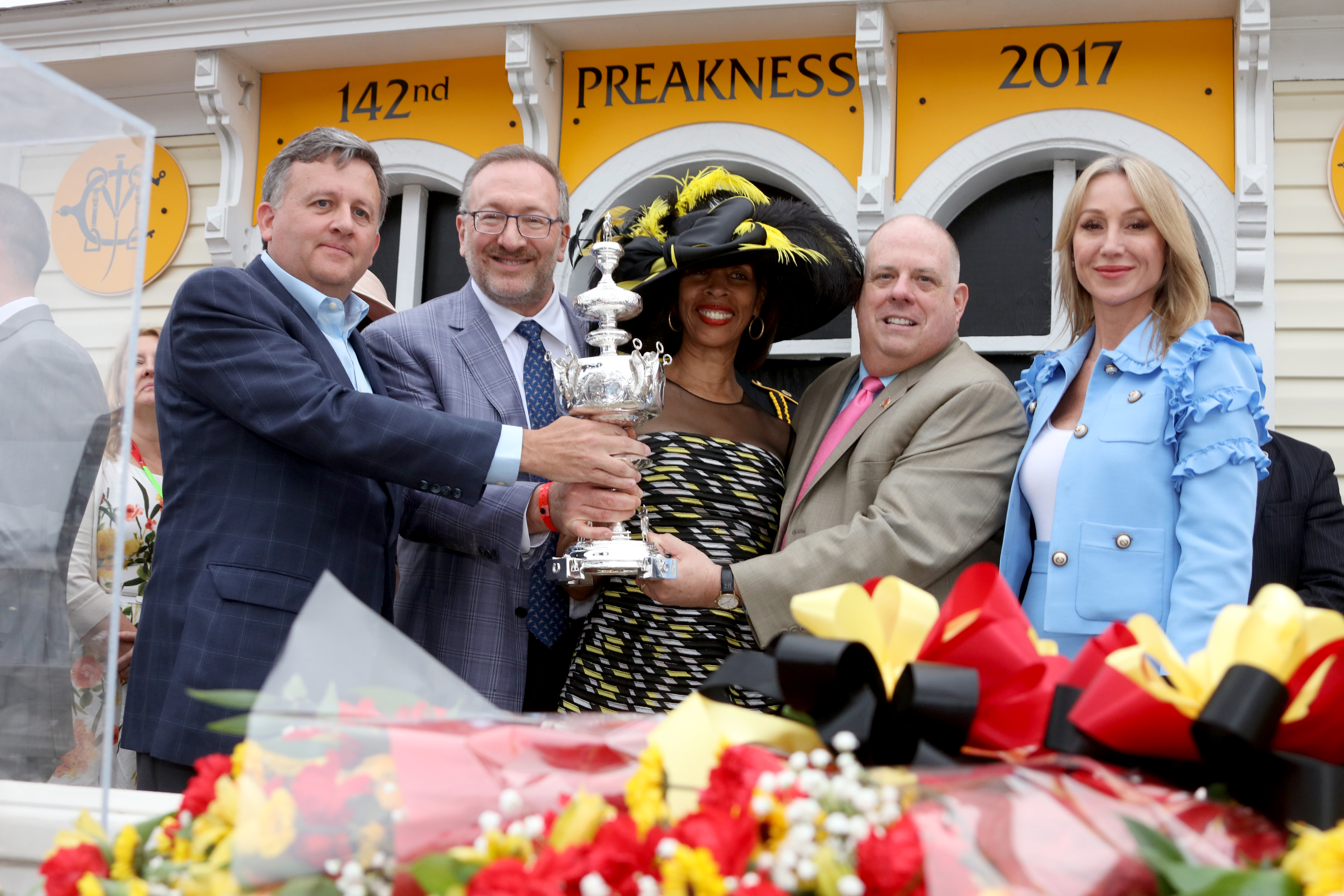 Governor Hogan, Lt. Governor Rutherford, First Lady Yumi Hogan Attend The 142nd Preakness by staff at Pimlico Race Track 5201 Park Heights Ave Baltimore, Maryland 21215 Photos from the 2017 Preakness Stakes. Governor Hogan, Lt. Governor Rutherford, First Lady Yumi Hogan attend the 142nd Preakness. Photos were taken by staff at Pimlico Race Track (5201 Park Heights Ave Baltimore, Maryland) on May 20, 2017.